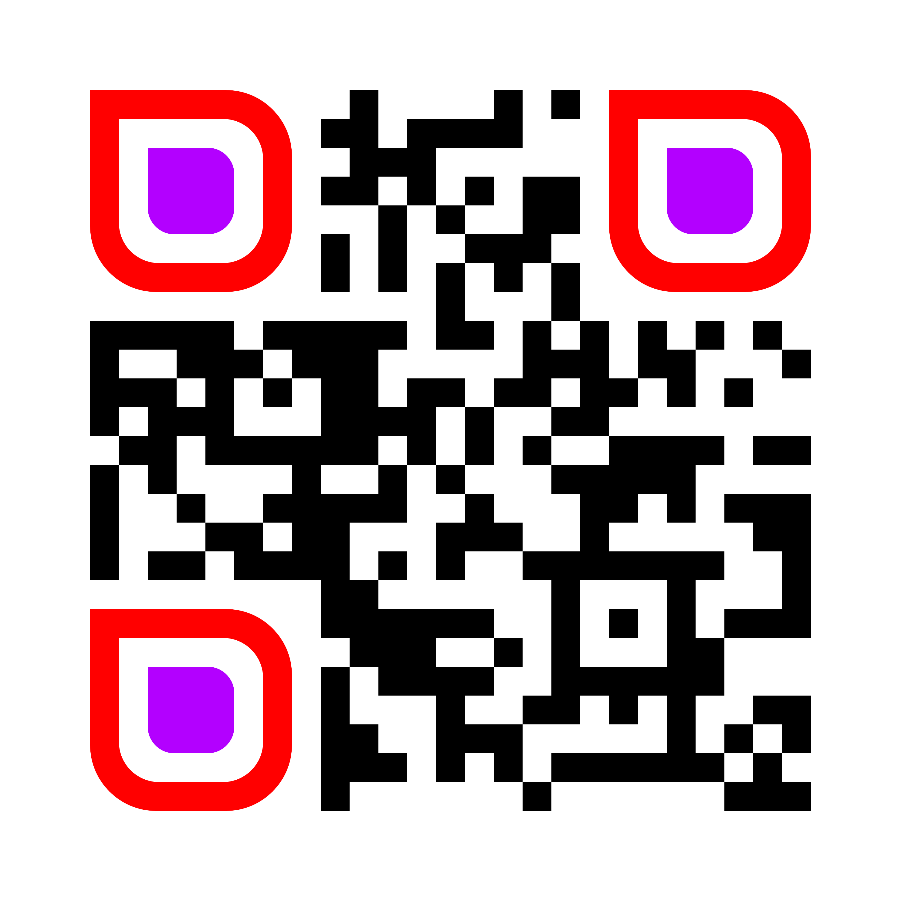 QRcode